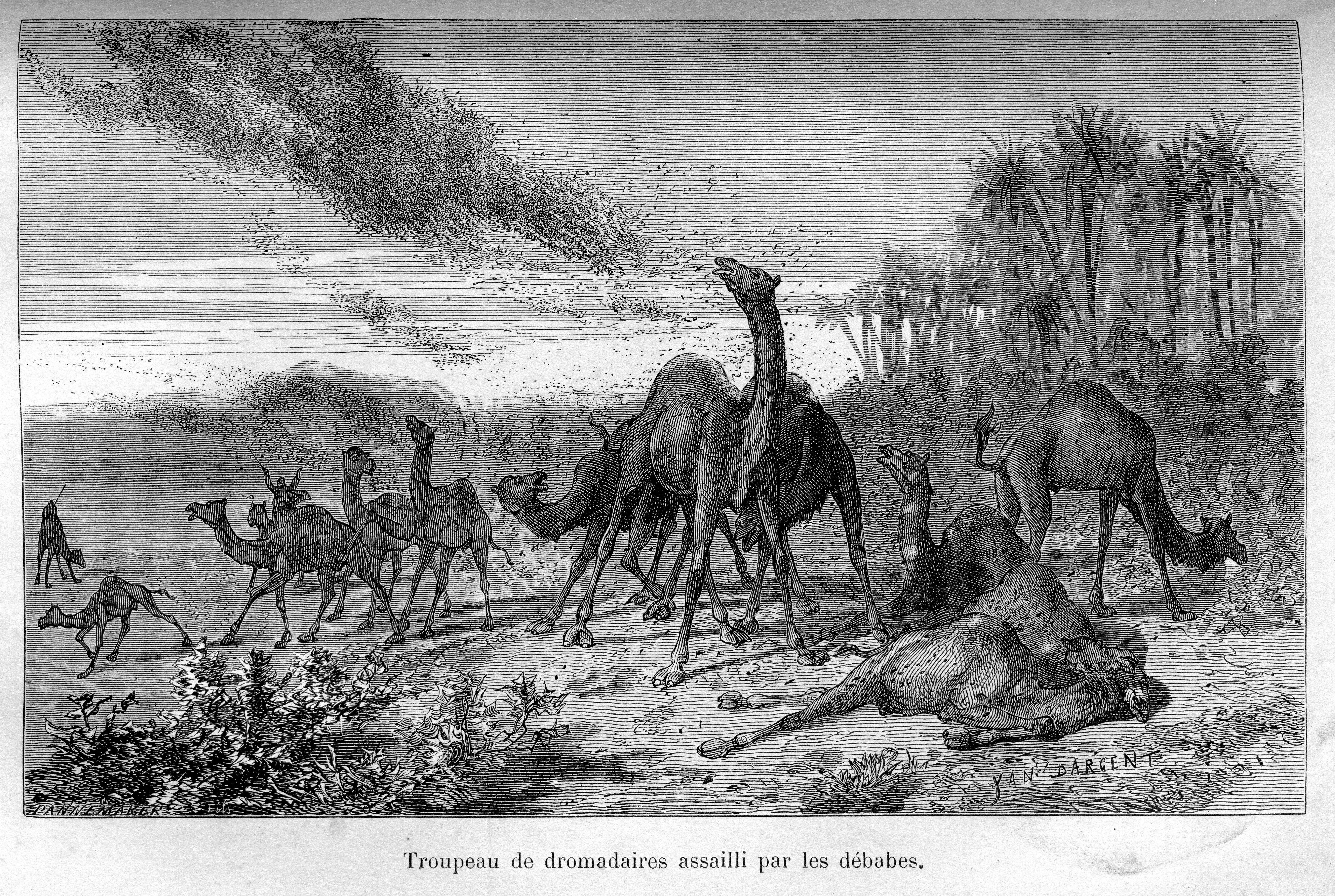 Arthur Mangin Nos ennemis, illustration par Pannemaker fils (Stéphane) et Yan Dargent